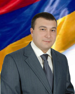 enfiajyan000